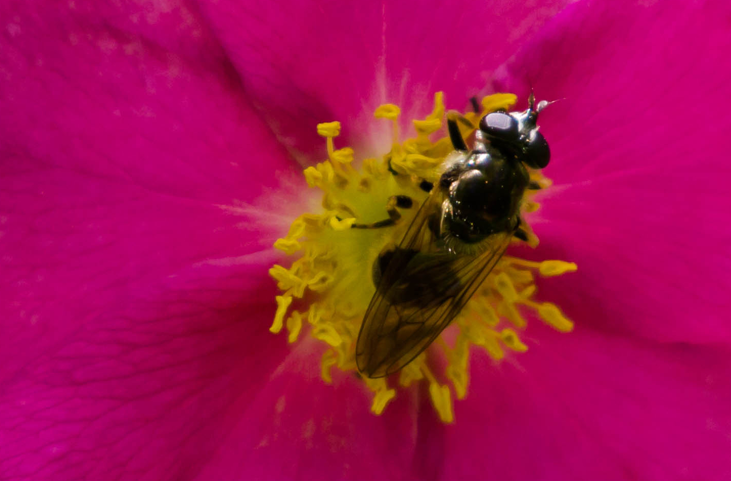 Dalmannia vitiosa